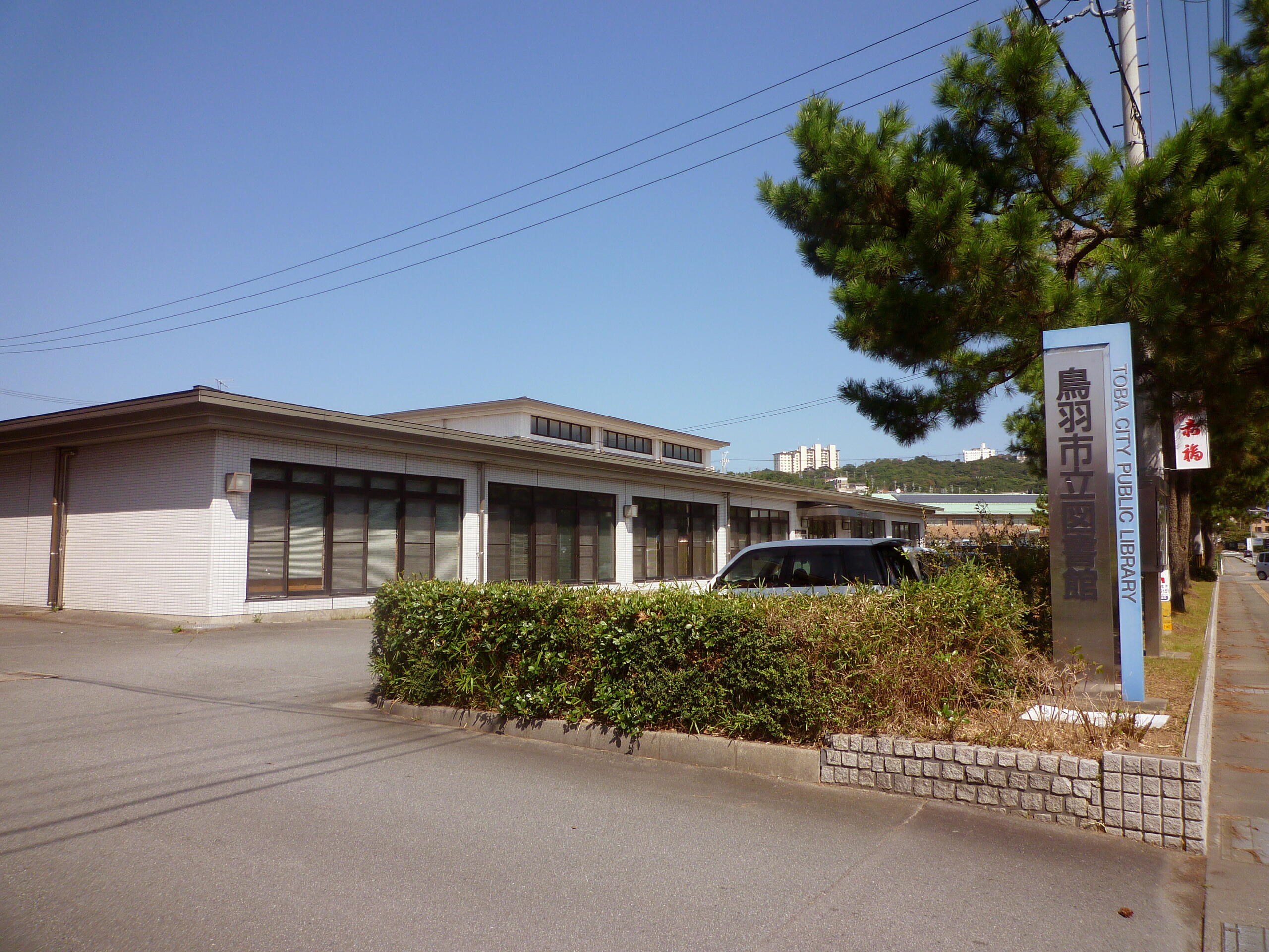 The "Toba City Public Library" in Toba, Mie, Japan.